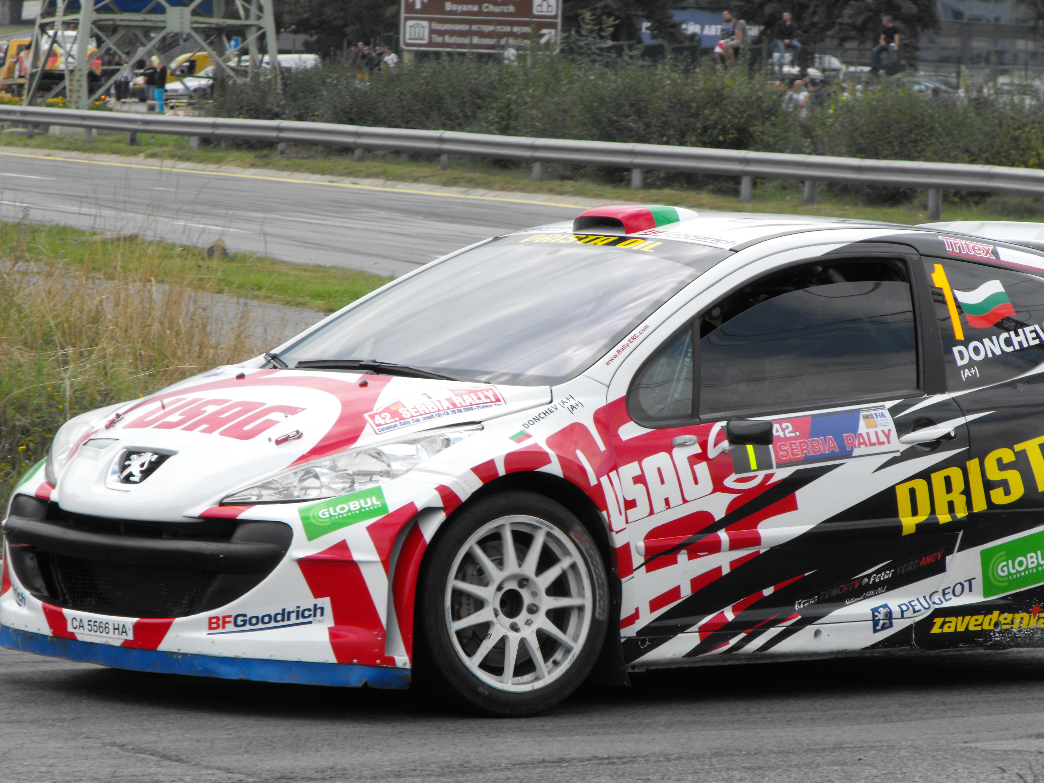 Bulgarian rallye driver - Krum Donchev